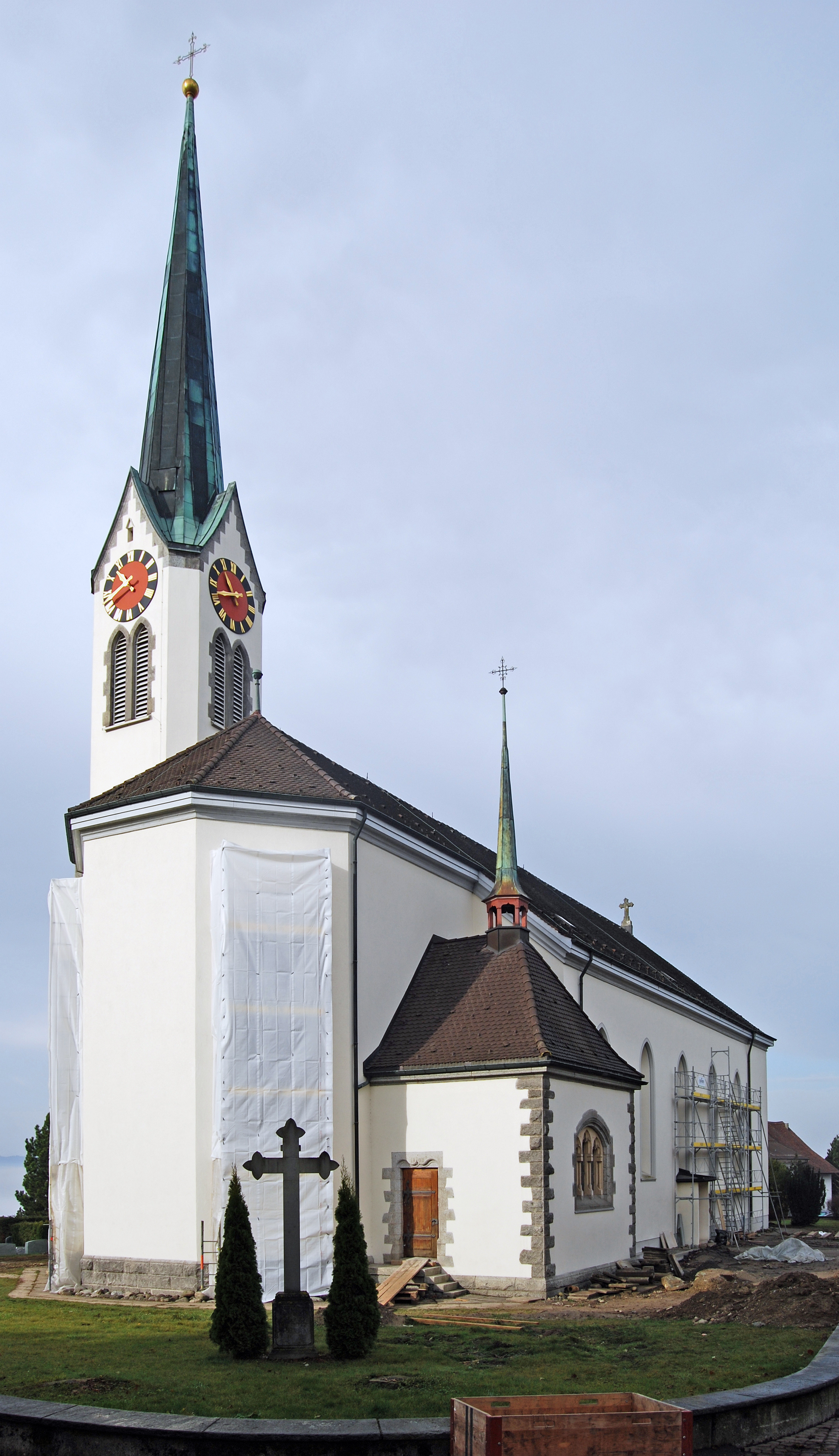 Church of Berikon, canton of Aargau, SwitzerlandEsperanto: Preĝejo de Berikon, Kantono Argovio, Svislando